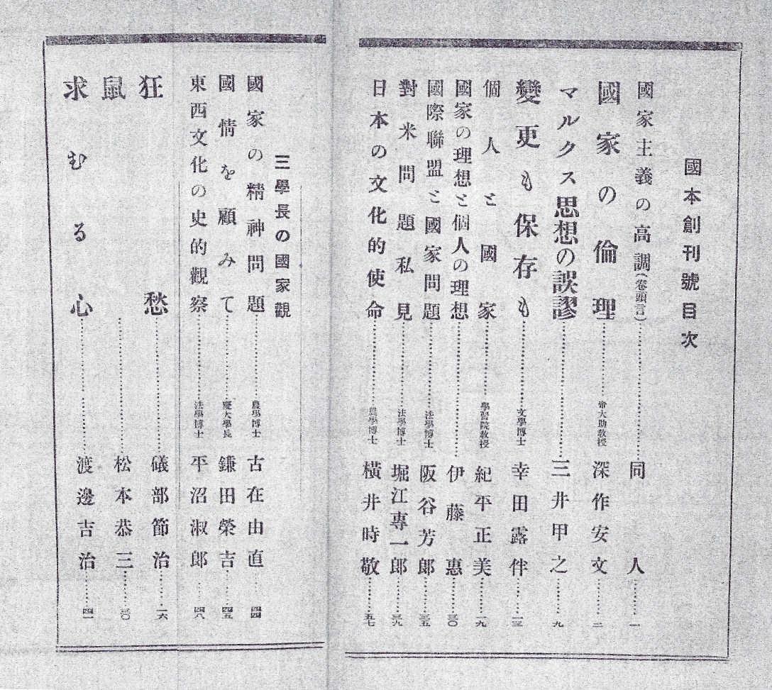 Table of contents in the journal "Kokuhon" Vol. 1, issued from the right wing political party Kokuhonsha which was founded by Hiranuma Kiichirō, around 1921. The title means literally "nation 国", and "truth/origin/book 本".